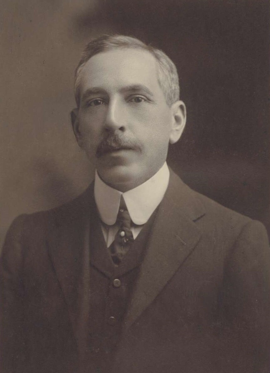 Billy Hughes in 1908